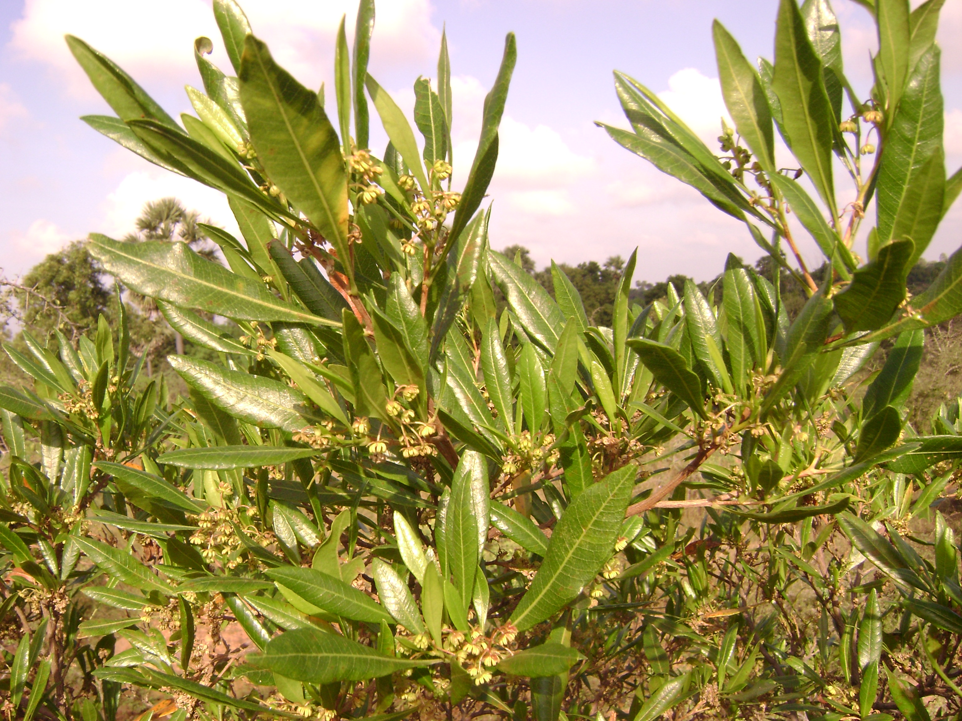 Virali foliage. It is used in medicine. Medicinal use: Curing of ulcers, inflammation and tumors.